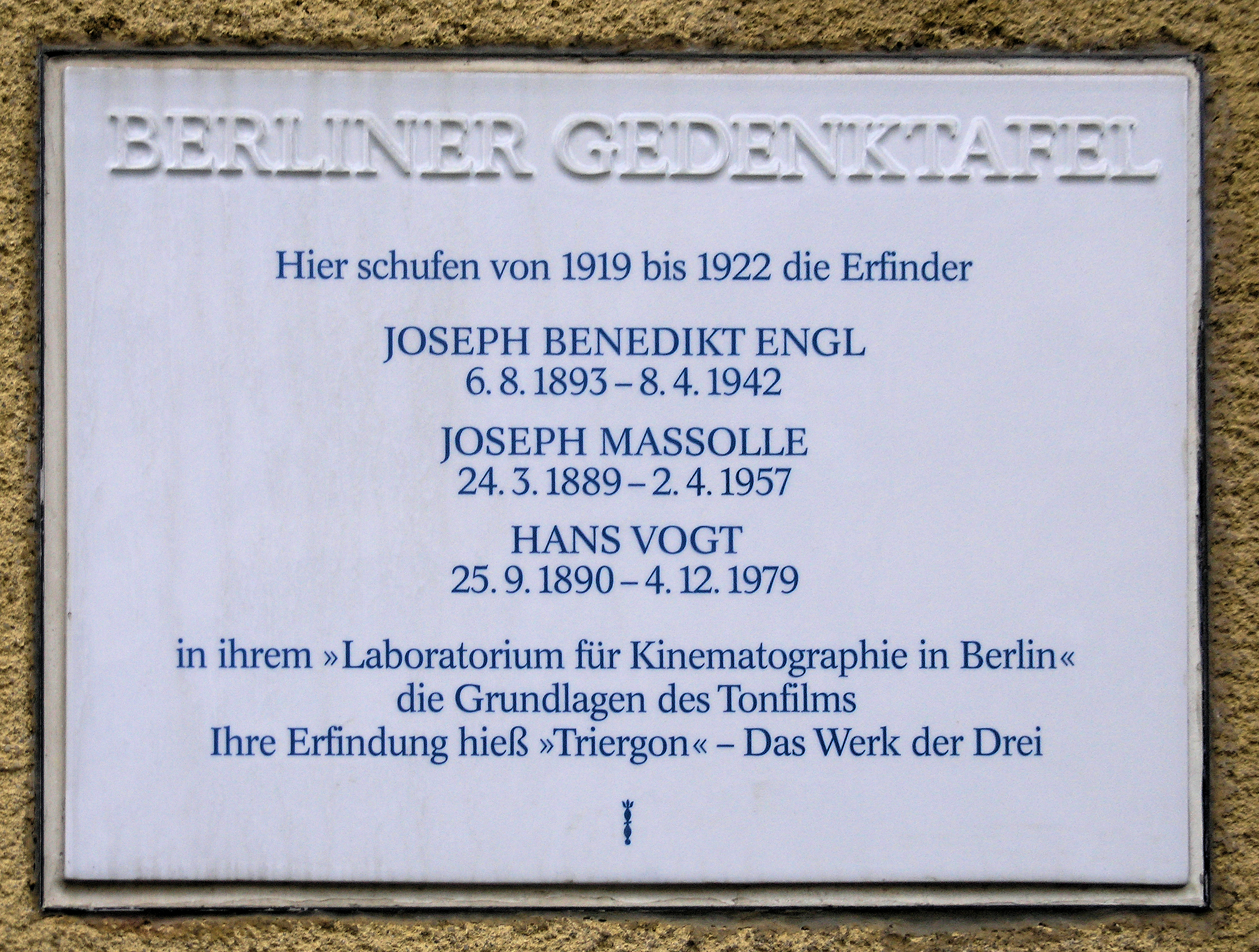 Berlin memorial plaque, Hans Vogt, Joseph Masolle, Joseph Benedikt Engl, Babelsberger Straße 49, Berlin-Wilmersdorf, Germany Koordinate:52°29′13″N 13°20′8″E / 52.48694°N 13.33556°E